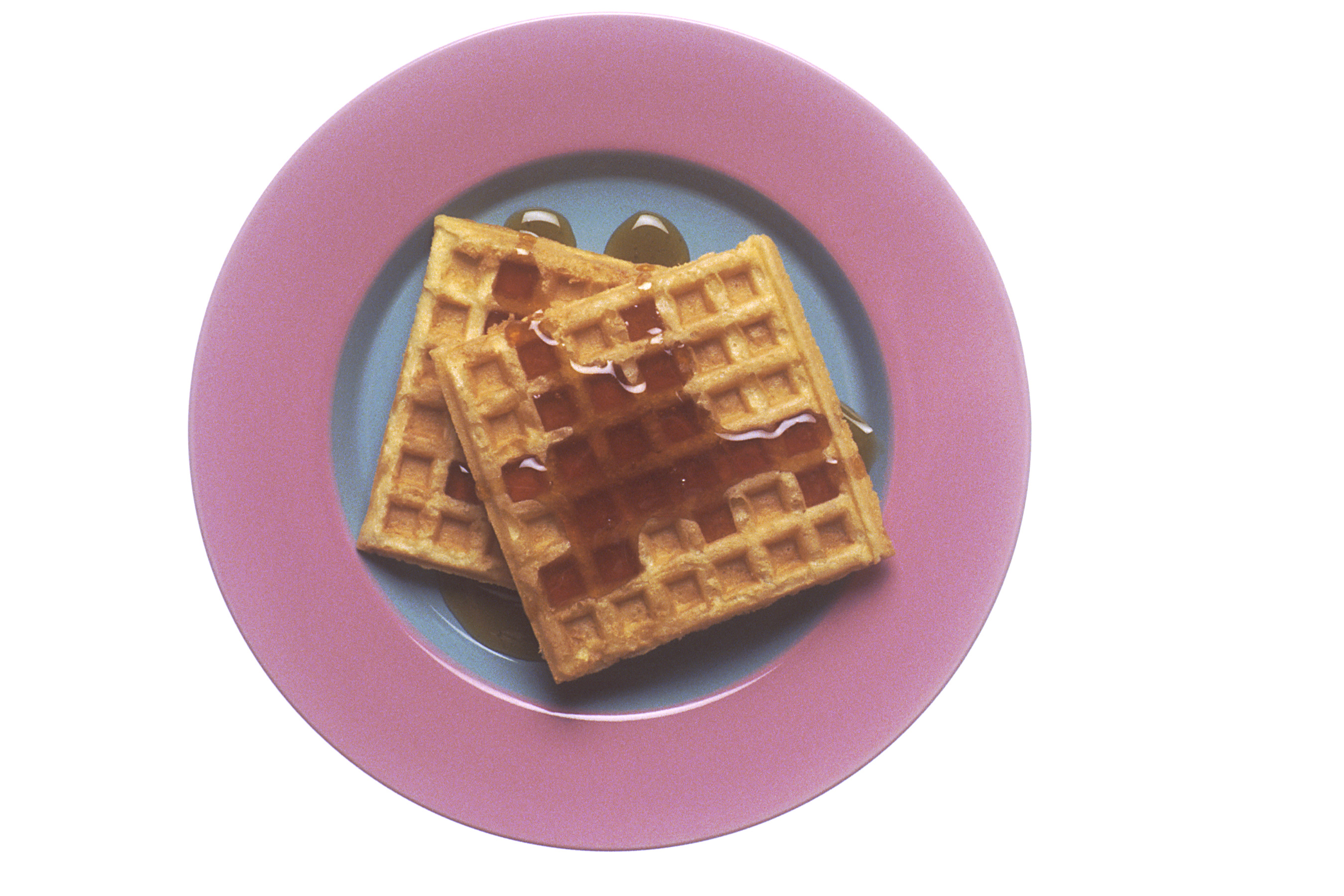 Title Waffles Description Two cooked breakfast waffles with maple syrup on a plate. Topics/Categories Food and Drink Type Color, Photo Source National Cancer Institute